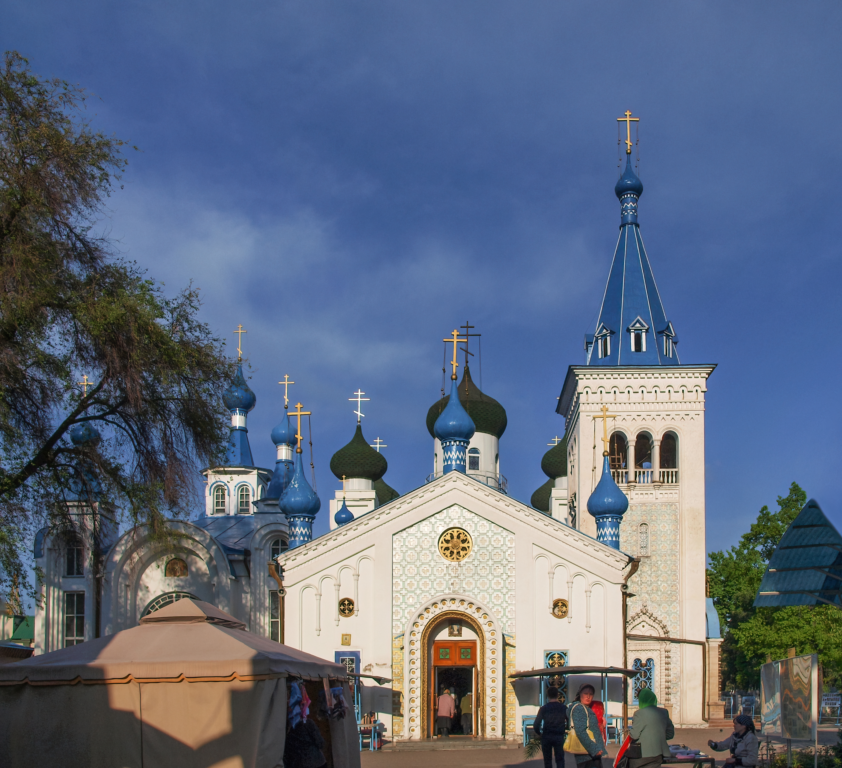 Russian Orthodox cathedral of Holy Resurrection, Bishkek, Kyrgystan.